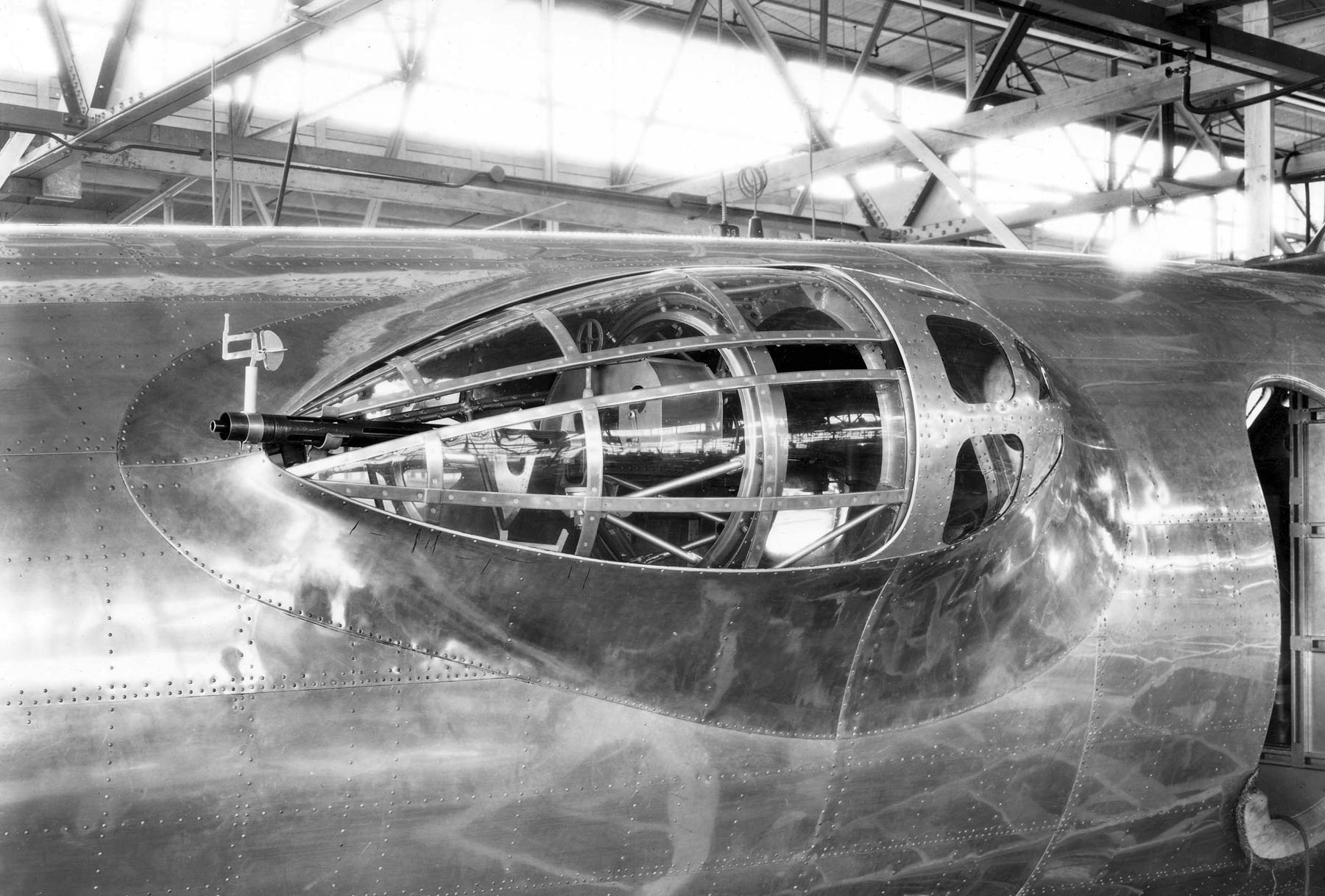 detail view of Boeing XB-17 waist blister turret, not accepted for production; production aircraft left gunners exposed to -50 F temperatures